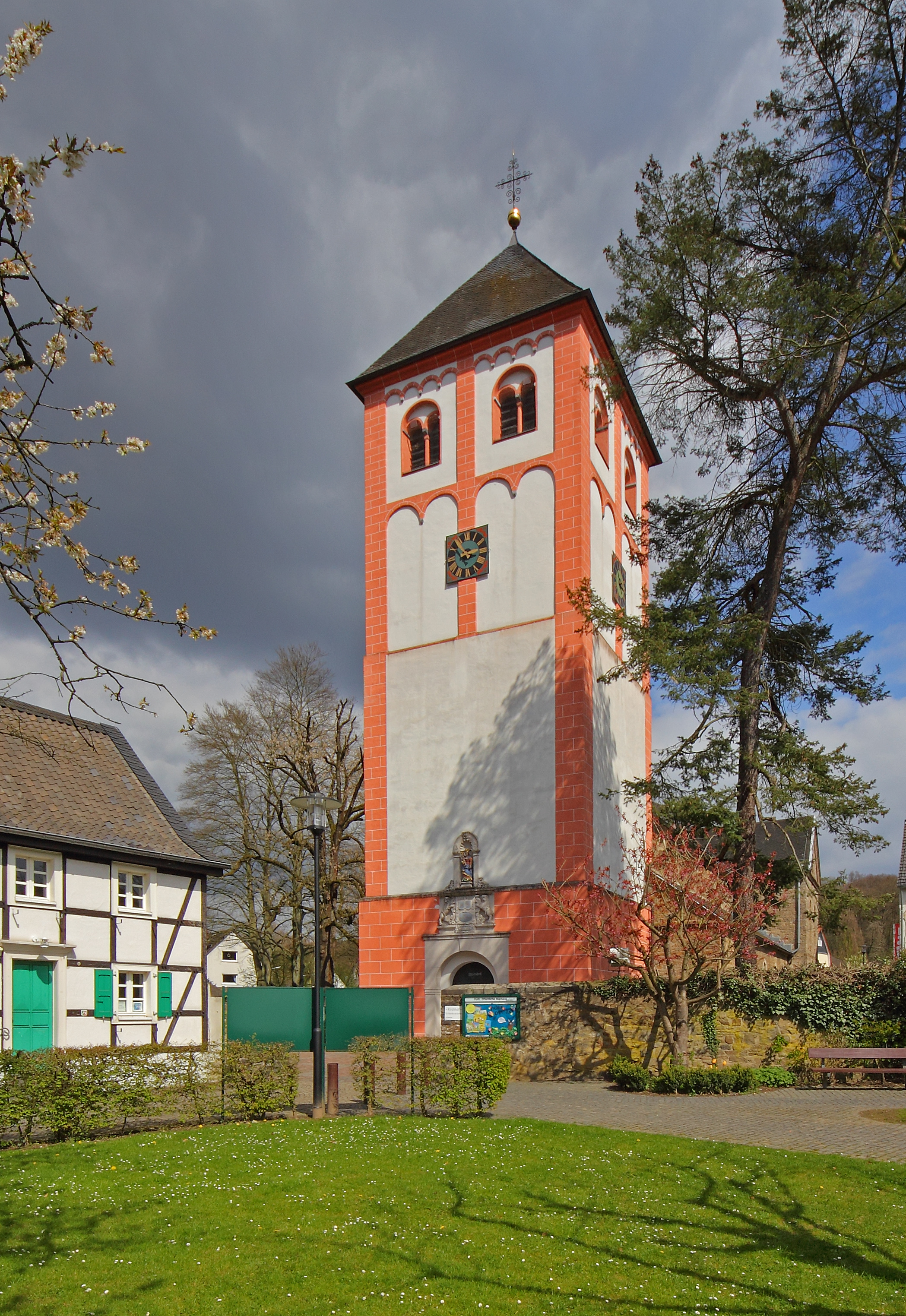 Odenthal (NRW, Germany); catholic church of St. Pancratius